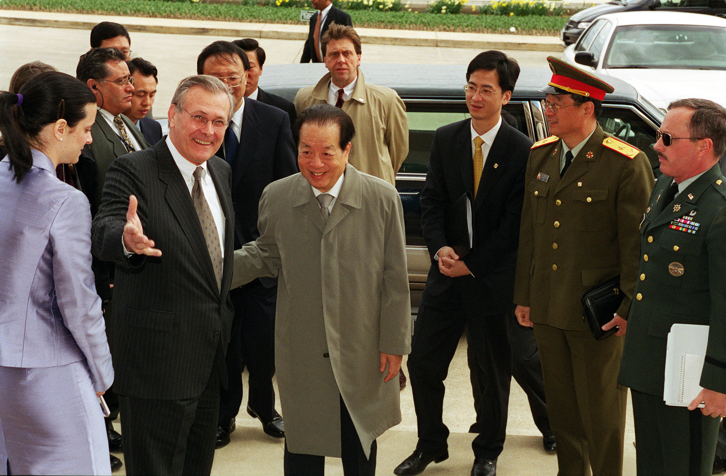 Secretary of Defense Donald H. Rumsfeld (left) welcomes Vice Premier Qian Qichen (center), of the Peoples Republic of China, as he arrives at the Pentagon on March 22, 2001. Rumsfeld and Qian will meet to discuss a range of security issues of interest to both nations.